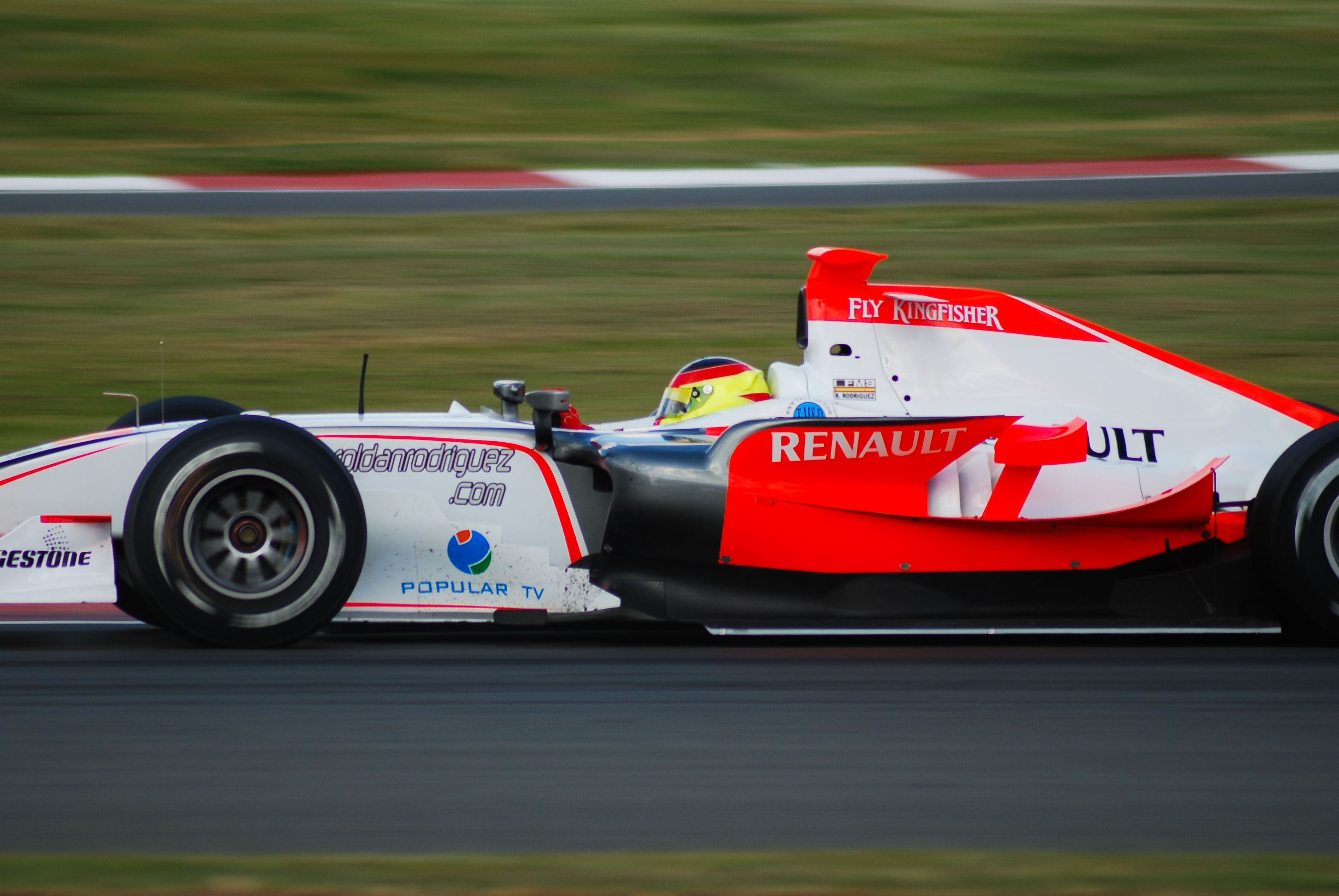 Roldán Rodríguez driving for FMS International at the Silverstone round of the 2008 GP2 Series season.